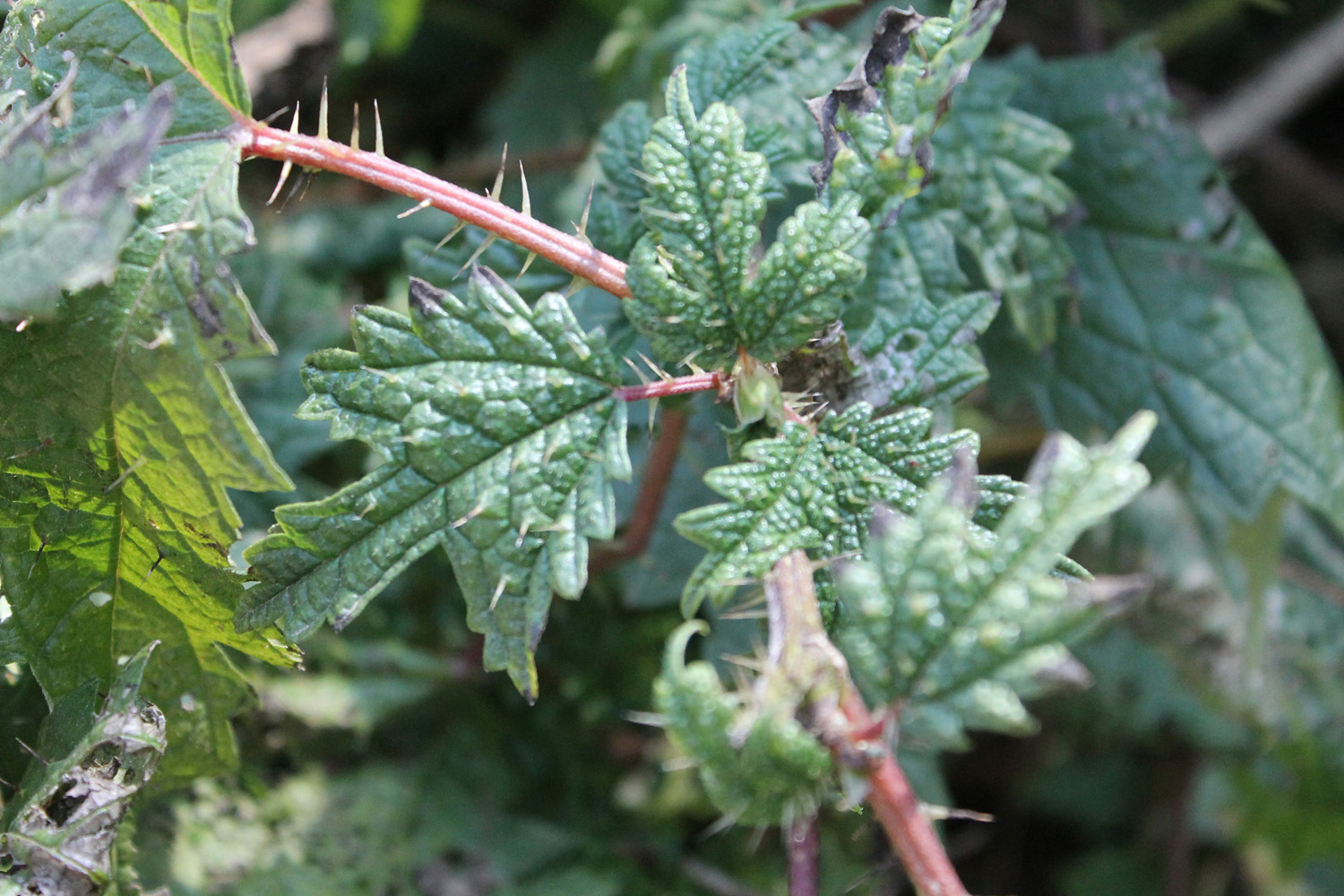 Girardinia diversifolia is a useful plant found in Nepal